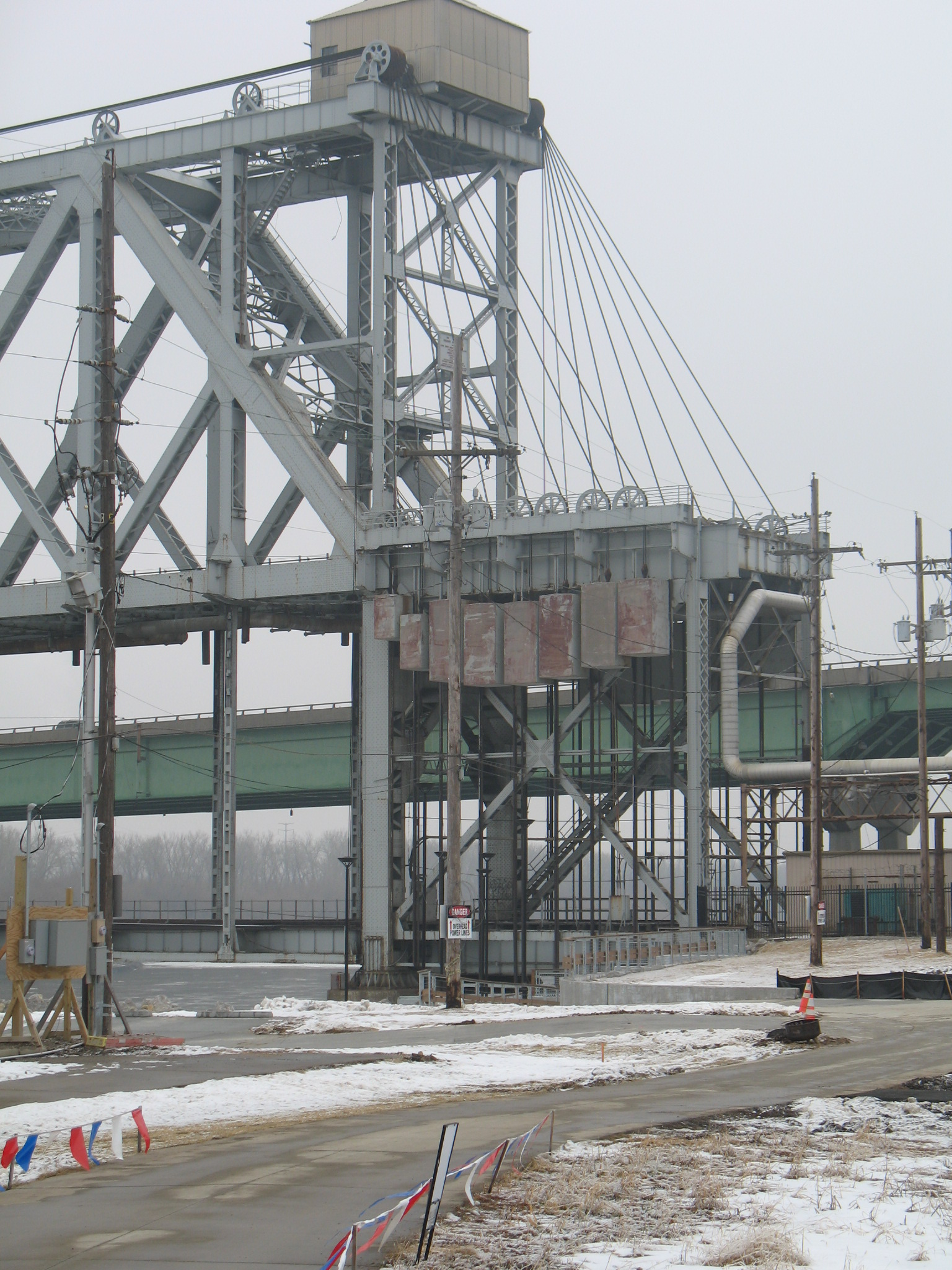 The counterweights are for the lift span of the bridge.